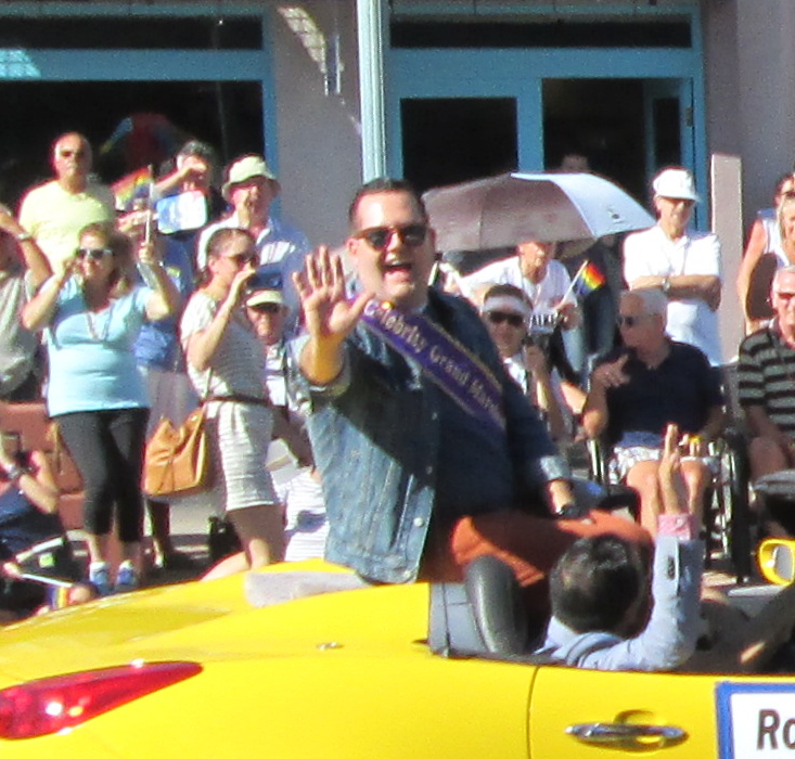 Ross Mathews at 2013 Palm Springs Pride Parade